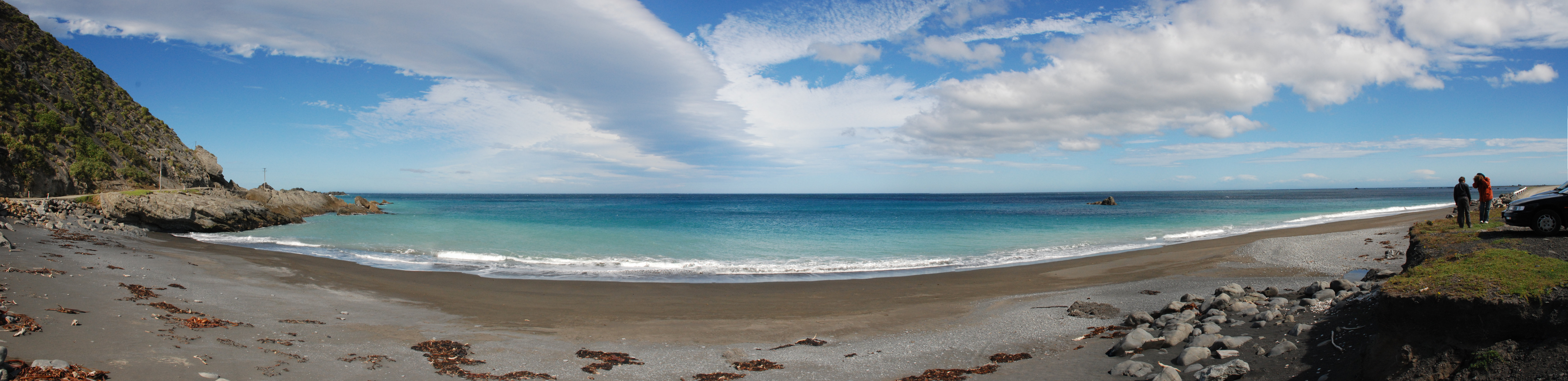 A typical beach on the Palliser coast. This was taken near the base of Kupe's Sail, the base of which can be seen at the left of the panorama.